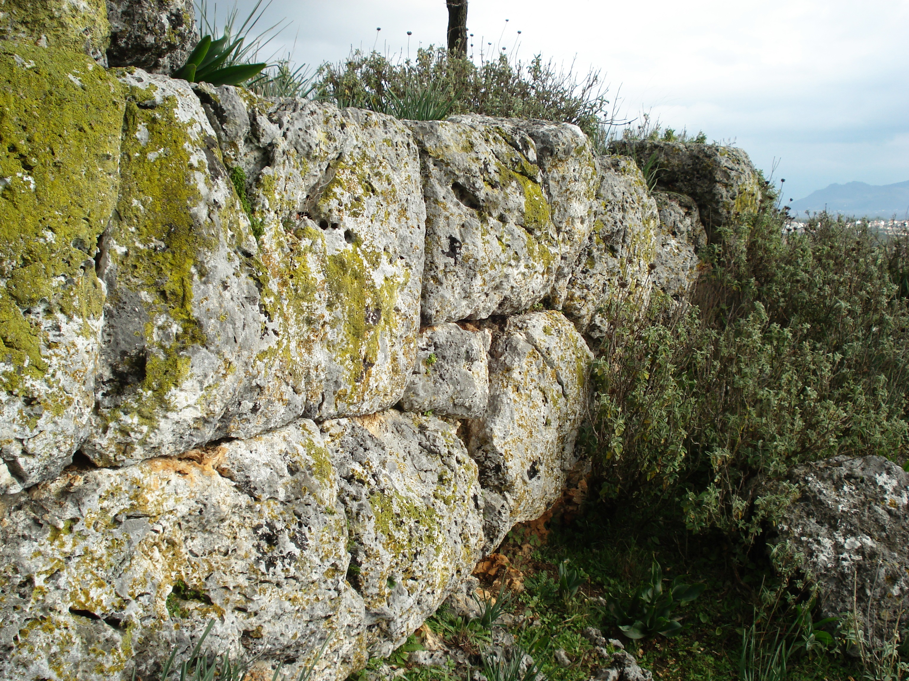 Ancient Elatreia Polyvryso polygonal walls